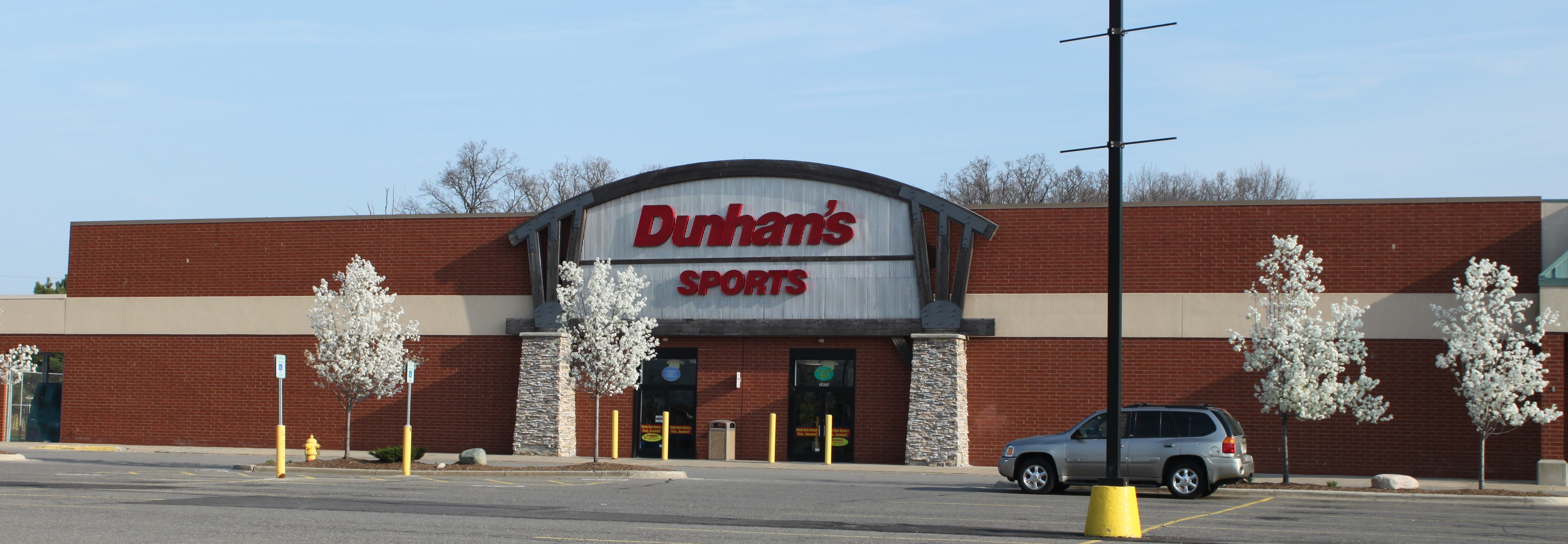 Dunham's Ypsilanti, Twp., MI